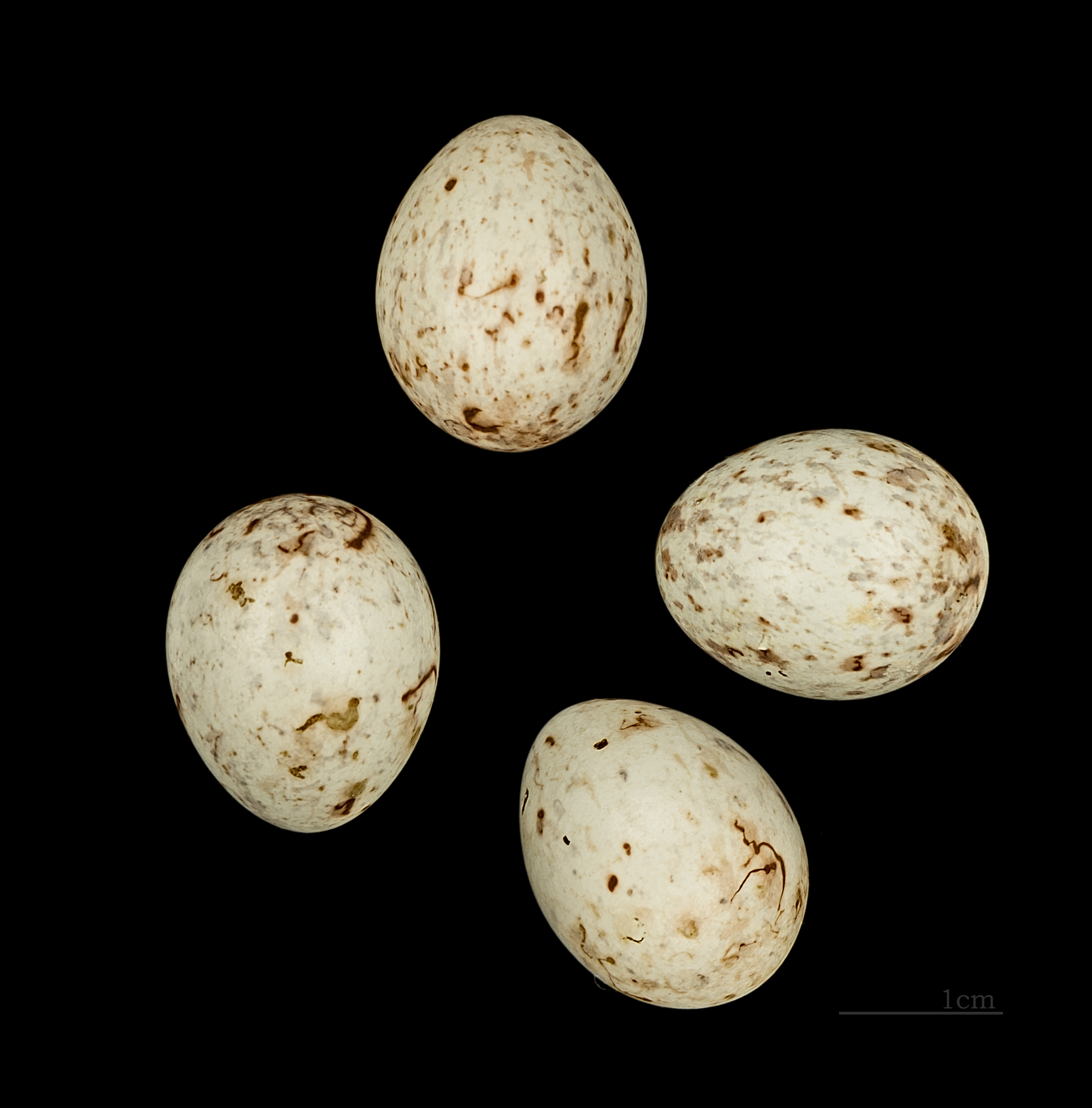 Egg of Grey Bunting. Collection of Henri Heim de Balsac /René de Naurois /Jacques Perrin de Brichambaut.